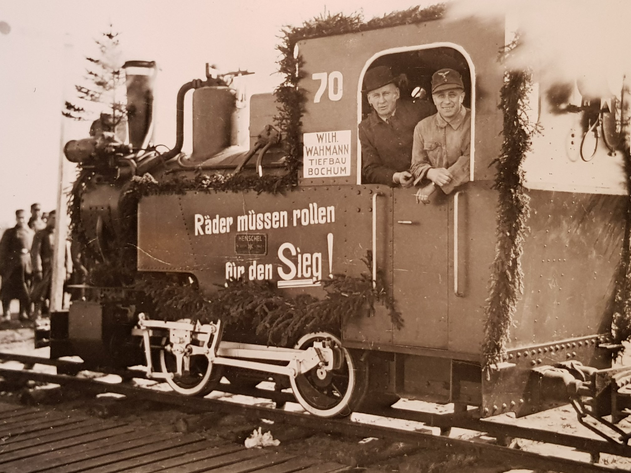 Opening of the 'Lunde-Bahn' in Farsund, Norway, on 19 April 1943